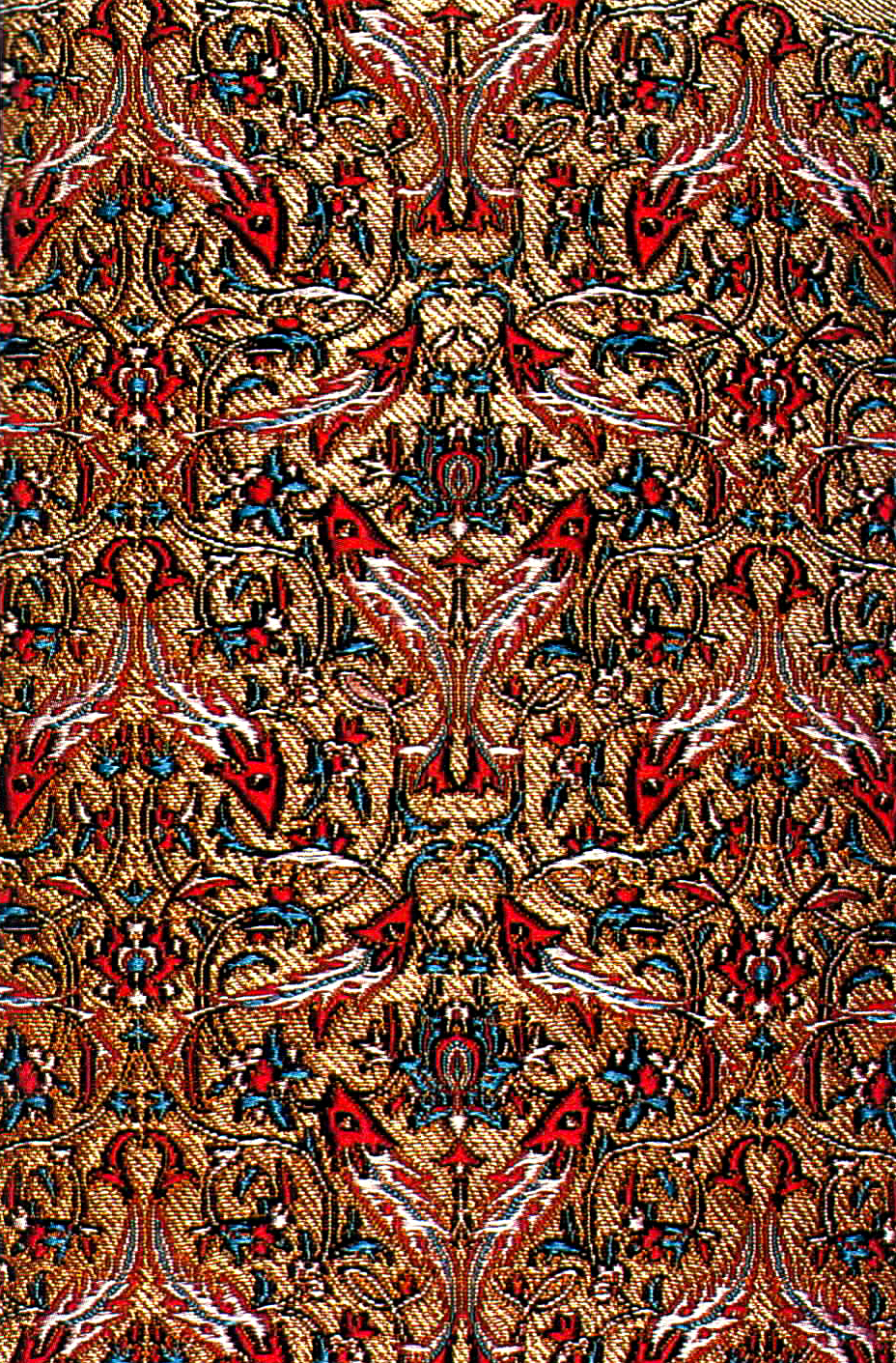 Persian Silk Brocade. Persian Textile (The Golden Yarns of Zari - Brocade). Silk Brocade with Golden Thread (Golabetoon). Texture Type: Upper Warp and Lower Warp (Brocade Daraei and Atlasi). Ornamental Relief Work. Embossed Brocade. Jacquard. Pattern and Design: The Fish (Mahi) with Shah Abbasi Flower, With Main Repeating Motif. Brocade weaver: Master Seyyed Hossein Mozhgani. 1975 A.D. Brocade Designer (Pattern Designer): Master Mohammad Tarighi. 1975 A.D. Pahlavi Dynasty. the Ministry of Culture and Art . Honarhaye Ziba workshop.